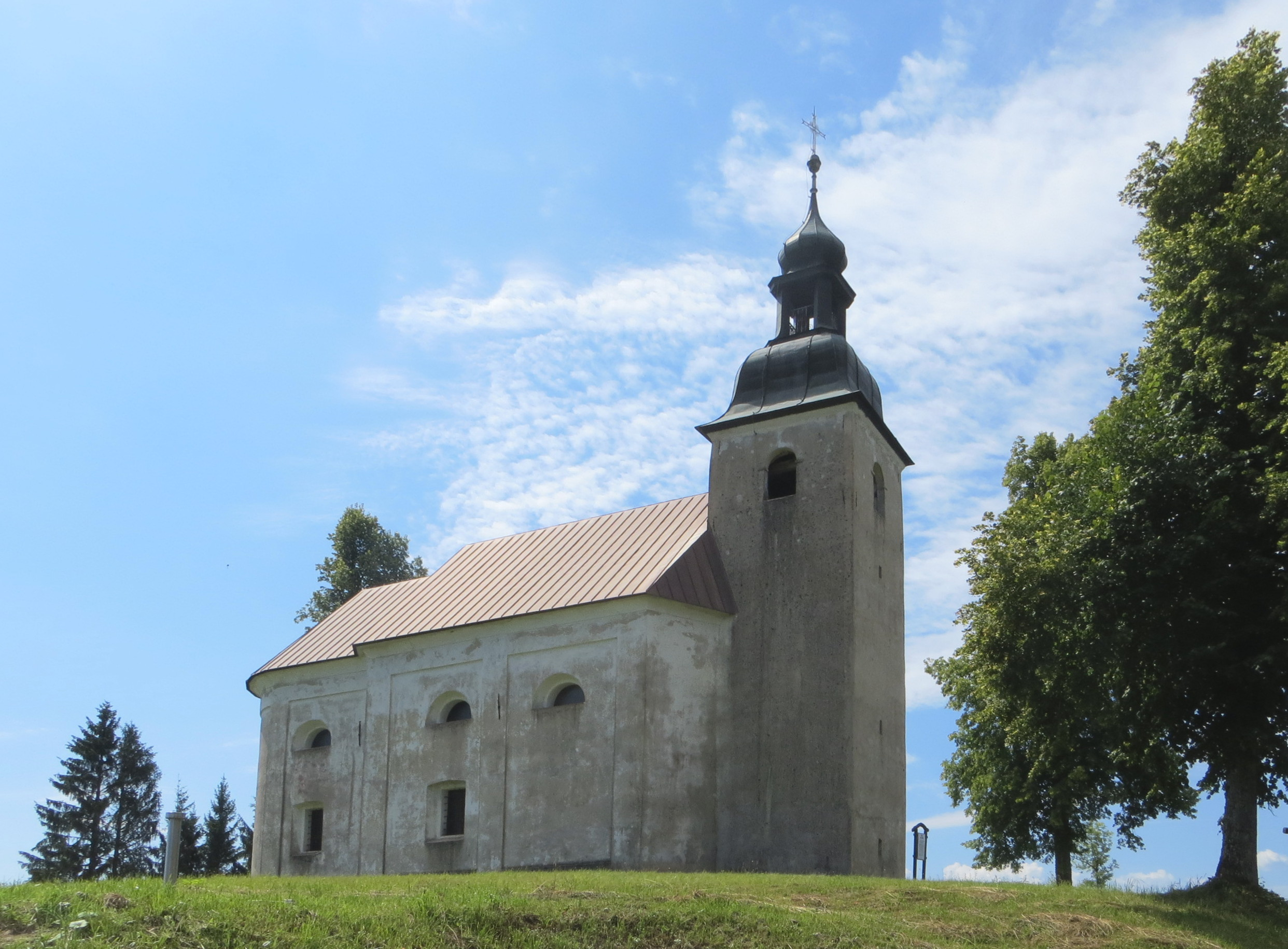 Saint Ulrich's Church in Hiteno, Municipality of Bloke, Slovenia